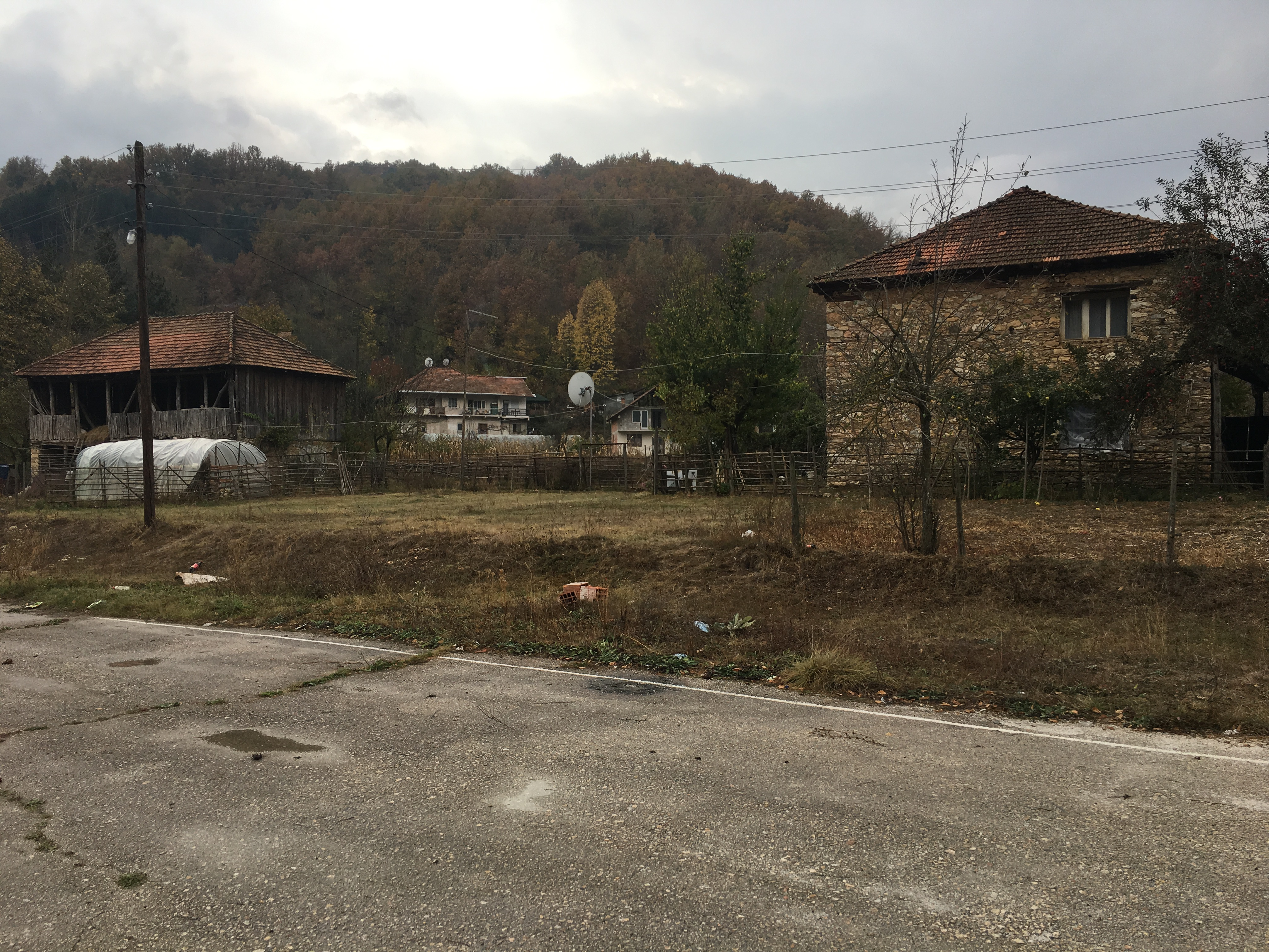 Wikiexpedition to Kopačka